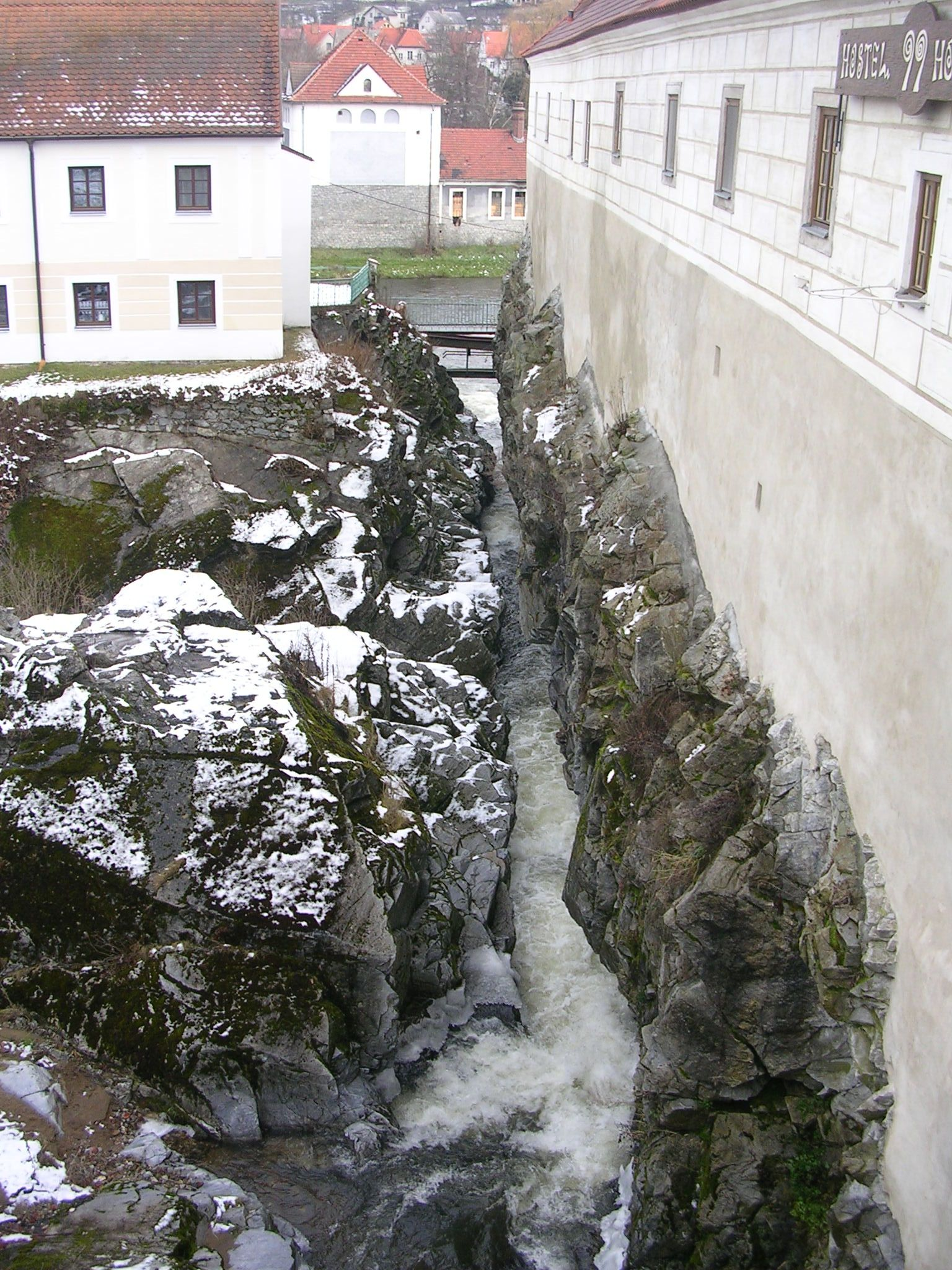 Český Krumlov, the Czech Republic.